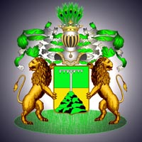 Coat of Arms of Dobrowolski family